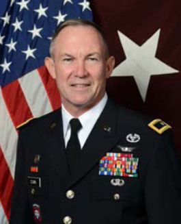 Photo of Brigadier General Jeffrey B. Clark